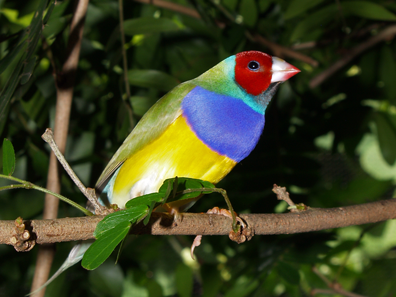 Red headed finch.